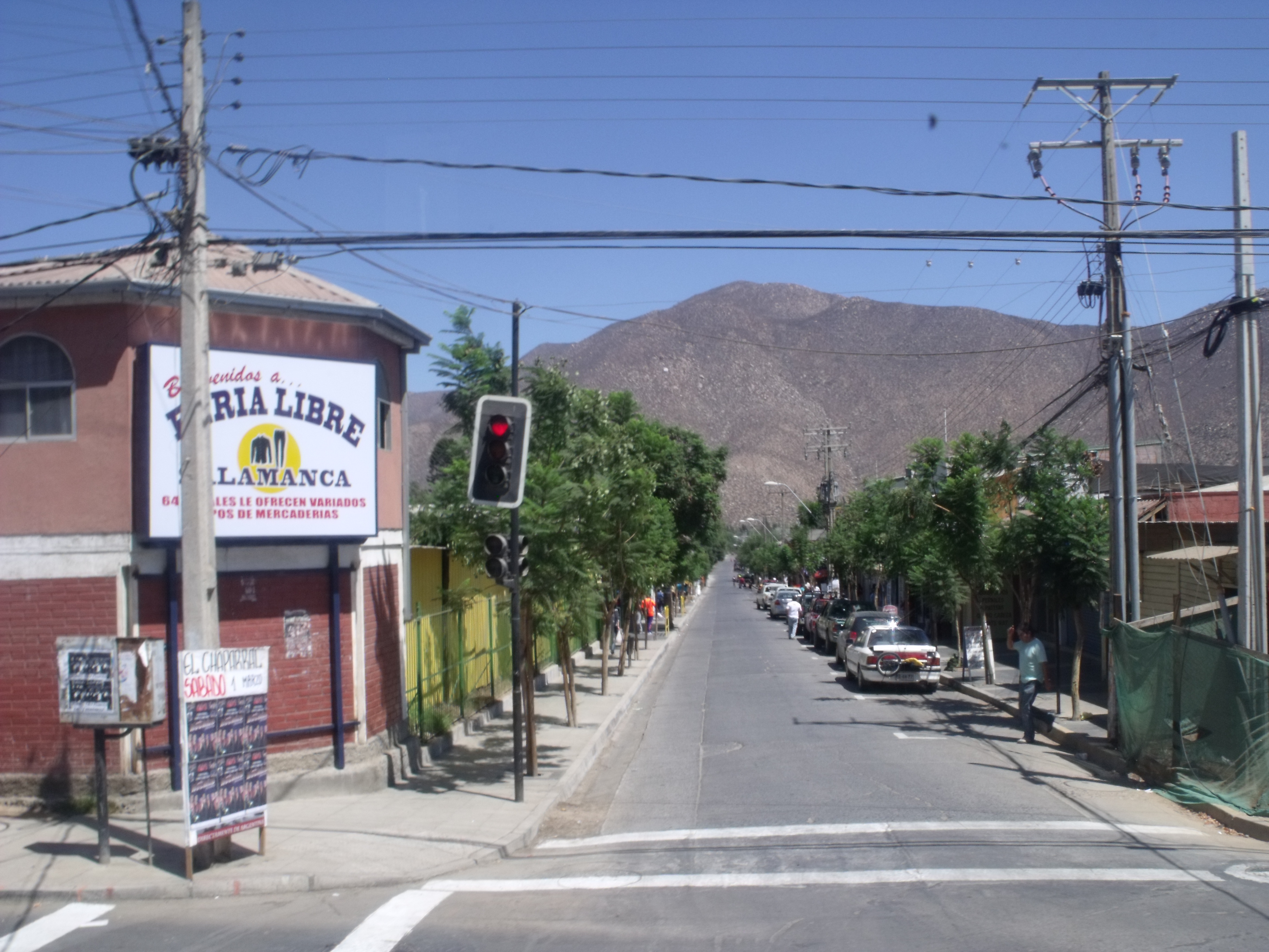 Salamanca is a Chilean city and commune located in the extreme southeast of the Coquimbo Region.